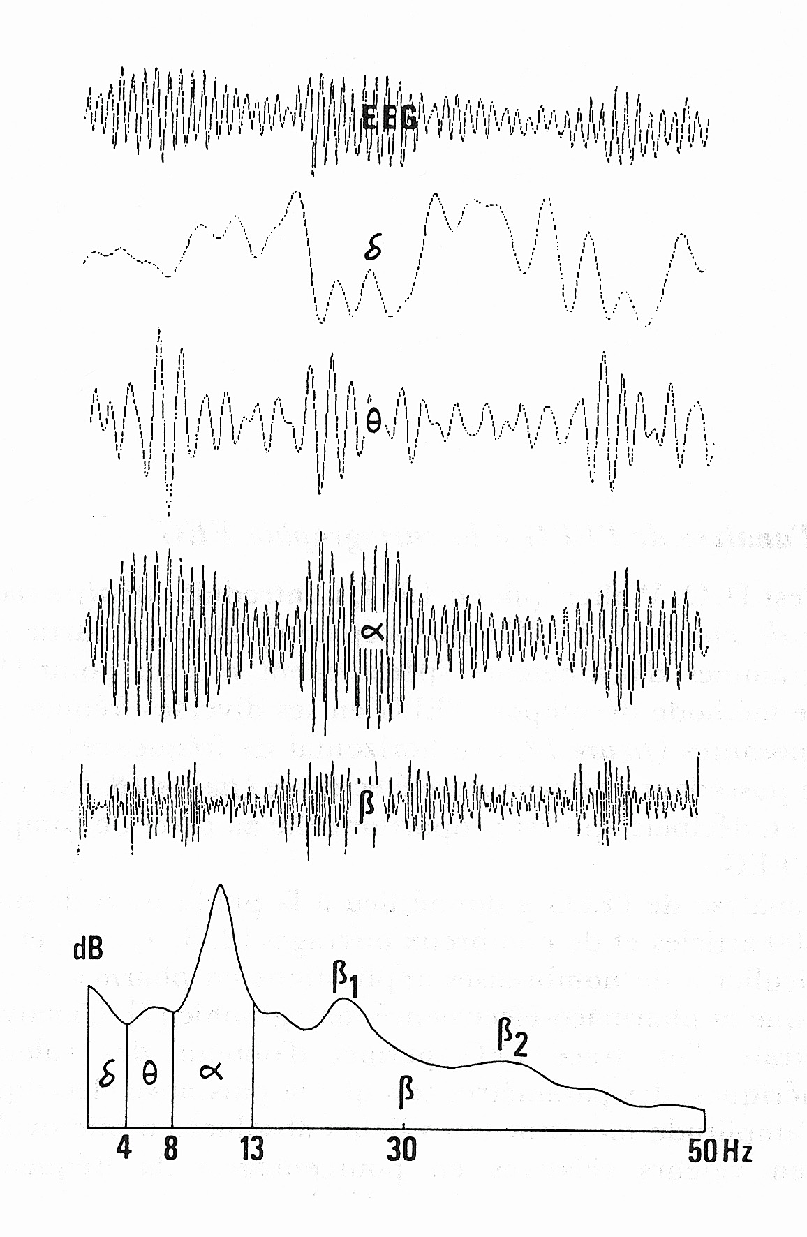 Spectral analysis of an EEG tracing recorded over occipital in a normal human subject being relaxed, eyes closed, without any mental task. The EEG power spectrum is represented in deciBels (dB) versus frequencies (Hz). The EEG is decomposed in electrical activities corresponding to different frequency bands of the power spectrum (delta, theta, alpha, beta).